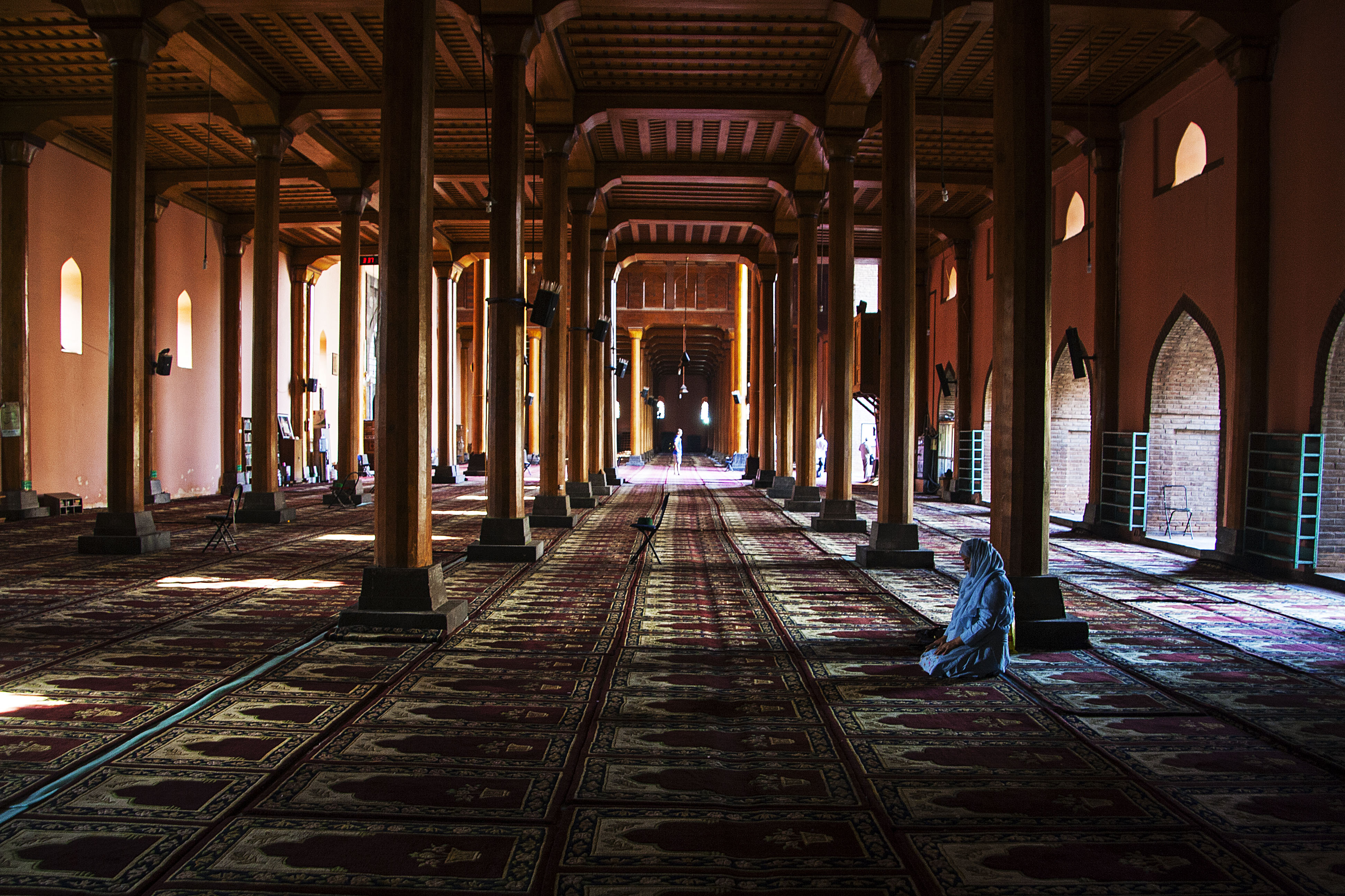 The photo was taken in Jamia mosque, srinagar